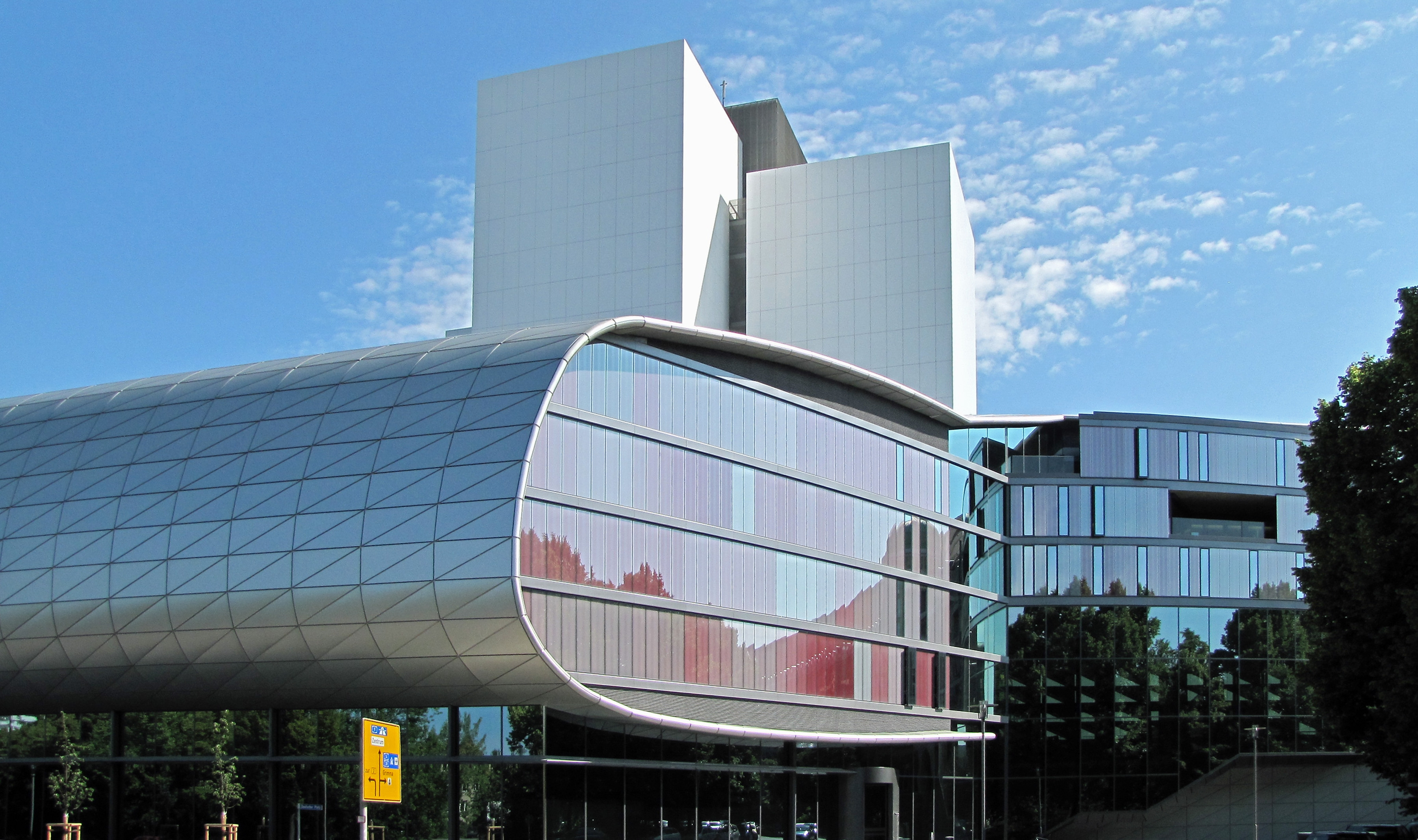 Exterior of new addition to the Deutsche Bücherei in Leipzig